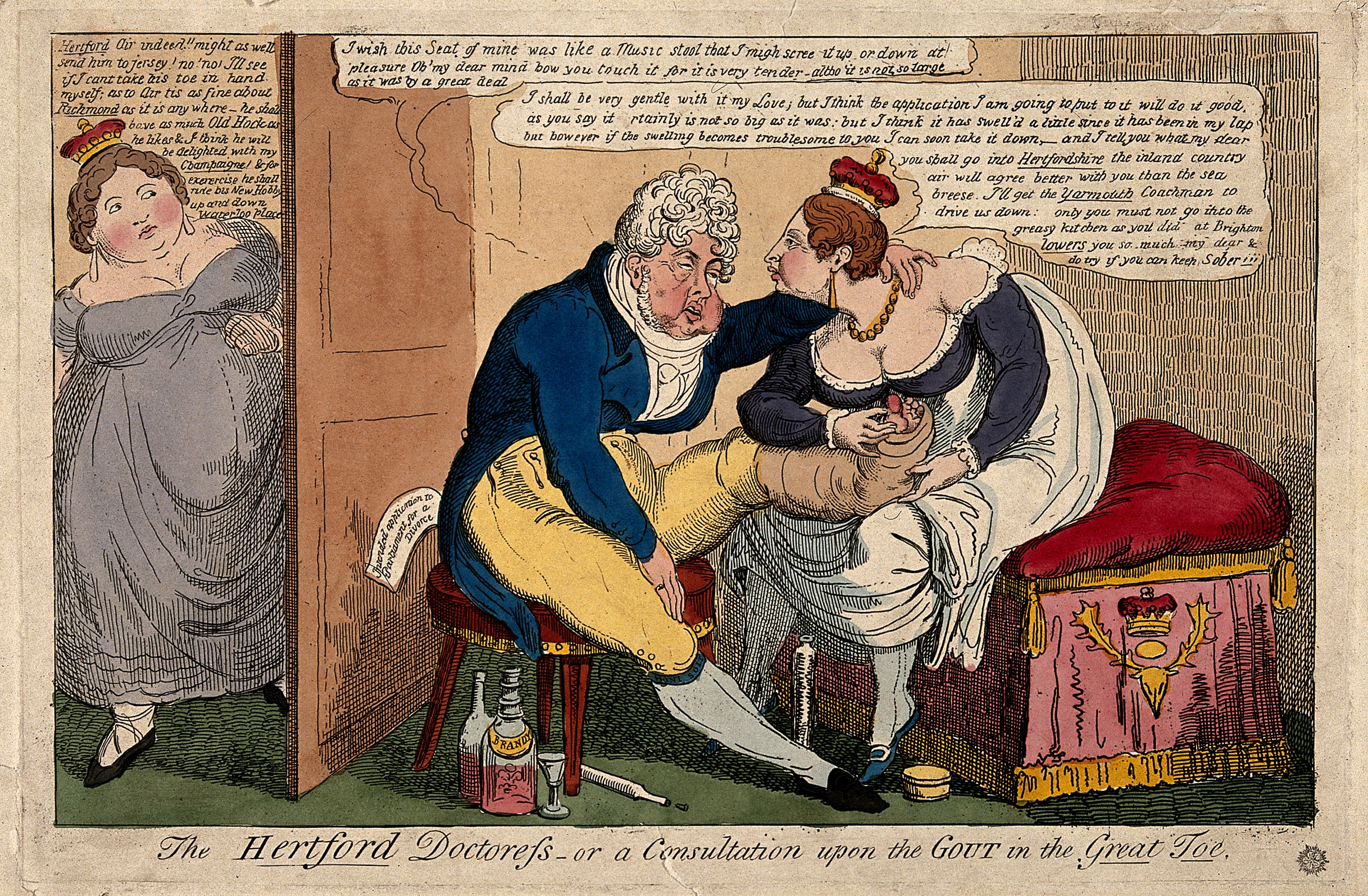 A gouty man having his foot caressed by a voluptuous woman with a crown, another crowned woman listens in the doorway; representing King George IV with his mistress the Marchioness of Hertford and his wife Queen Caroline of Brunswick. Iconographic Collections Keywords: Gout; Caricatures; century; Queen Caroline; costume - history - 19th centu; kings and rulers - mistresses; George IV; george iv,, 1762-1830; Isabelle Anne Seymour-Conway; house furnishings - great brit; etchings